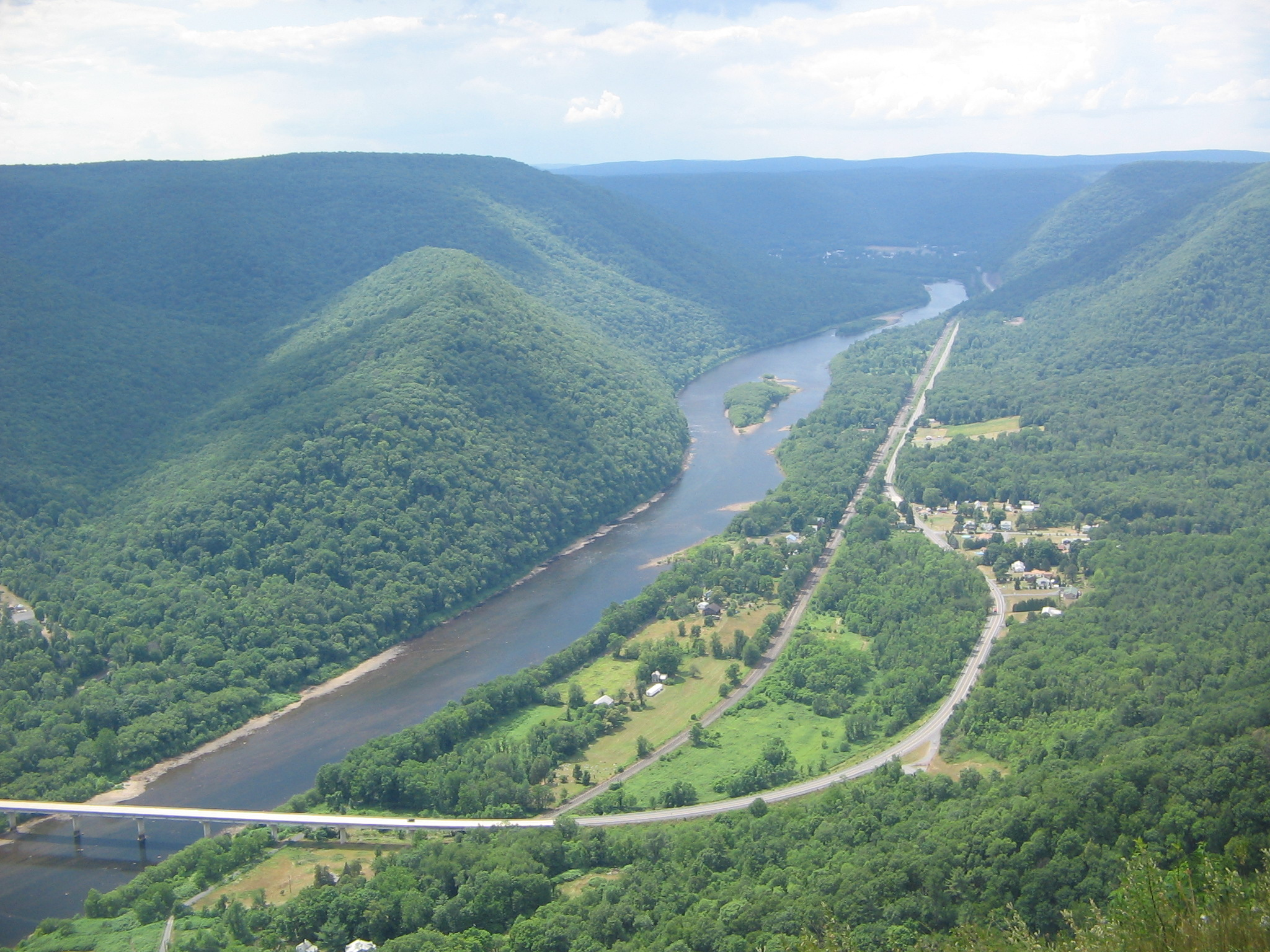 View west of the West Branch Susquehanna River Valley from Hyner View State Park in Clinton County, Pennsylvania, United States